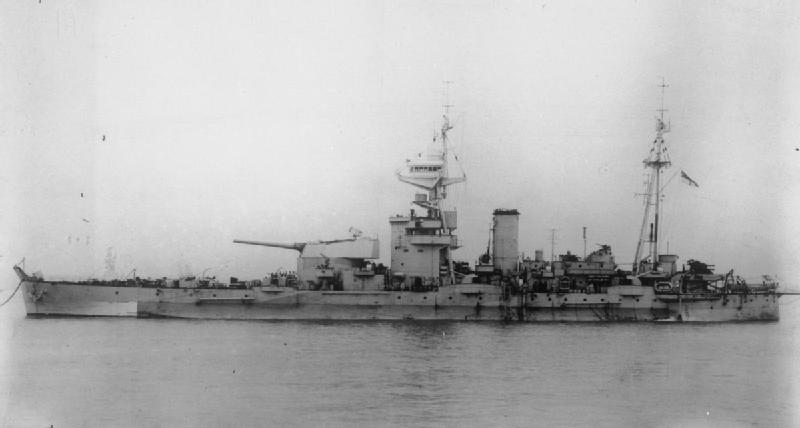 British monitor HMS ROBERTS secured to a buoy.